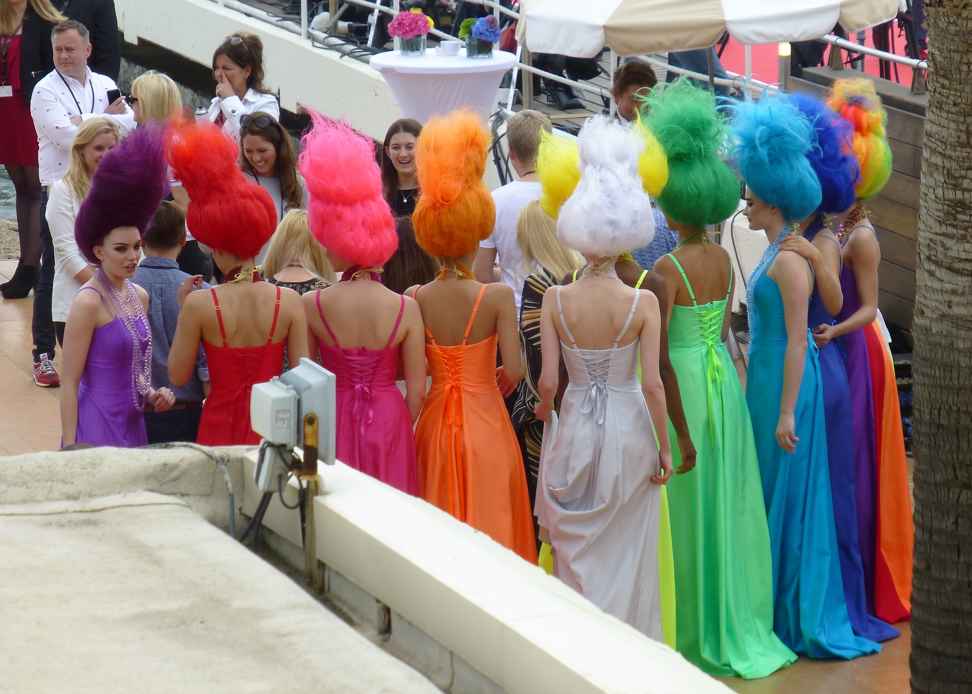 Trolls photocall media event. Somewhere down here are Anna Kendrick and Justin Timberlake